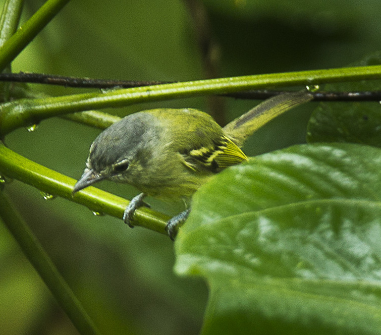 Ashy-headed Tyrannulet (Phyllomyias cinereiceps) - South Ecuador_S4E8985